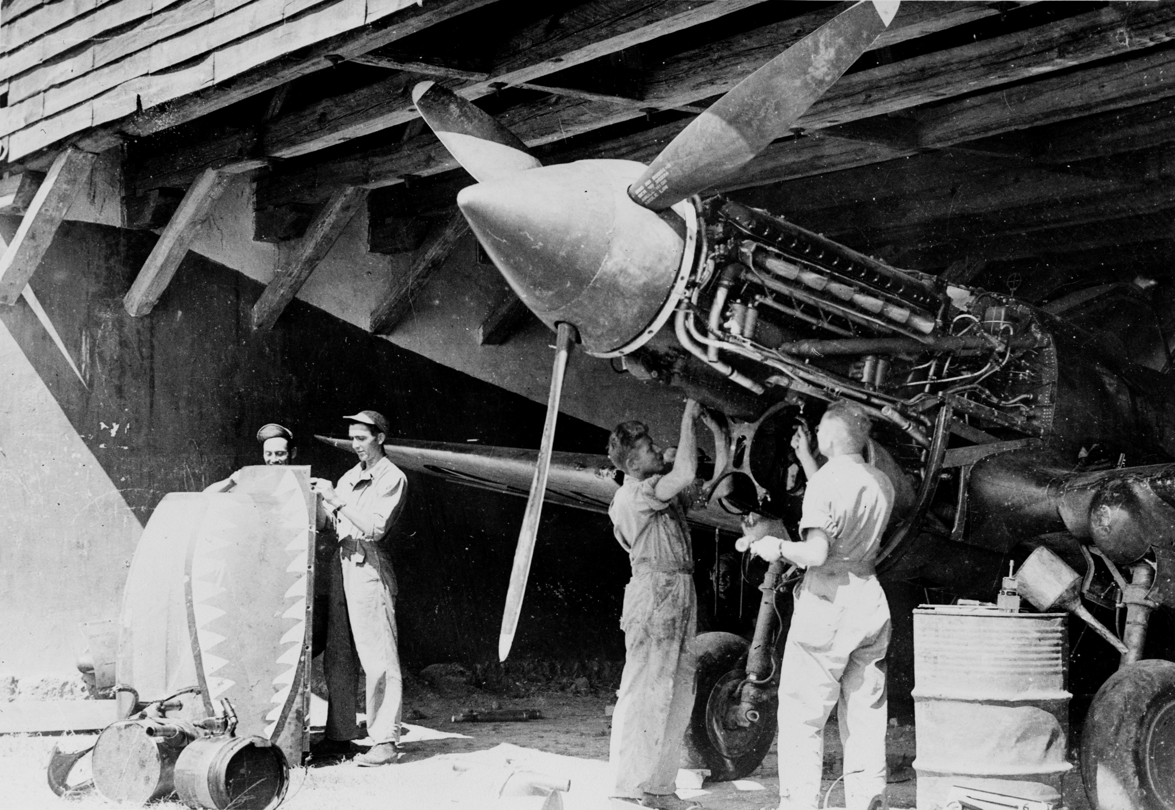 Ground crews servicing a Curtiss P-40 of the 23rd Fighter Group, also known as the "Flying Tigers" on an airfield in China.Original caption: "Ground crews of American Air Forces keep the engines tuned up for the Flying Tigers. Corporals J.B. Woodville, R.W. Berlansky, C.E. Lehman, and Sergeant C.E. Hoffman overhauling a P-40 after a flight."